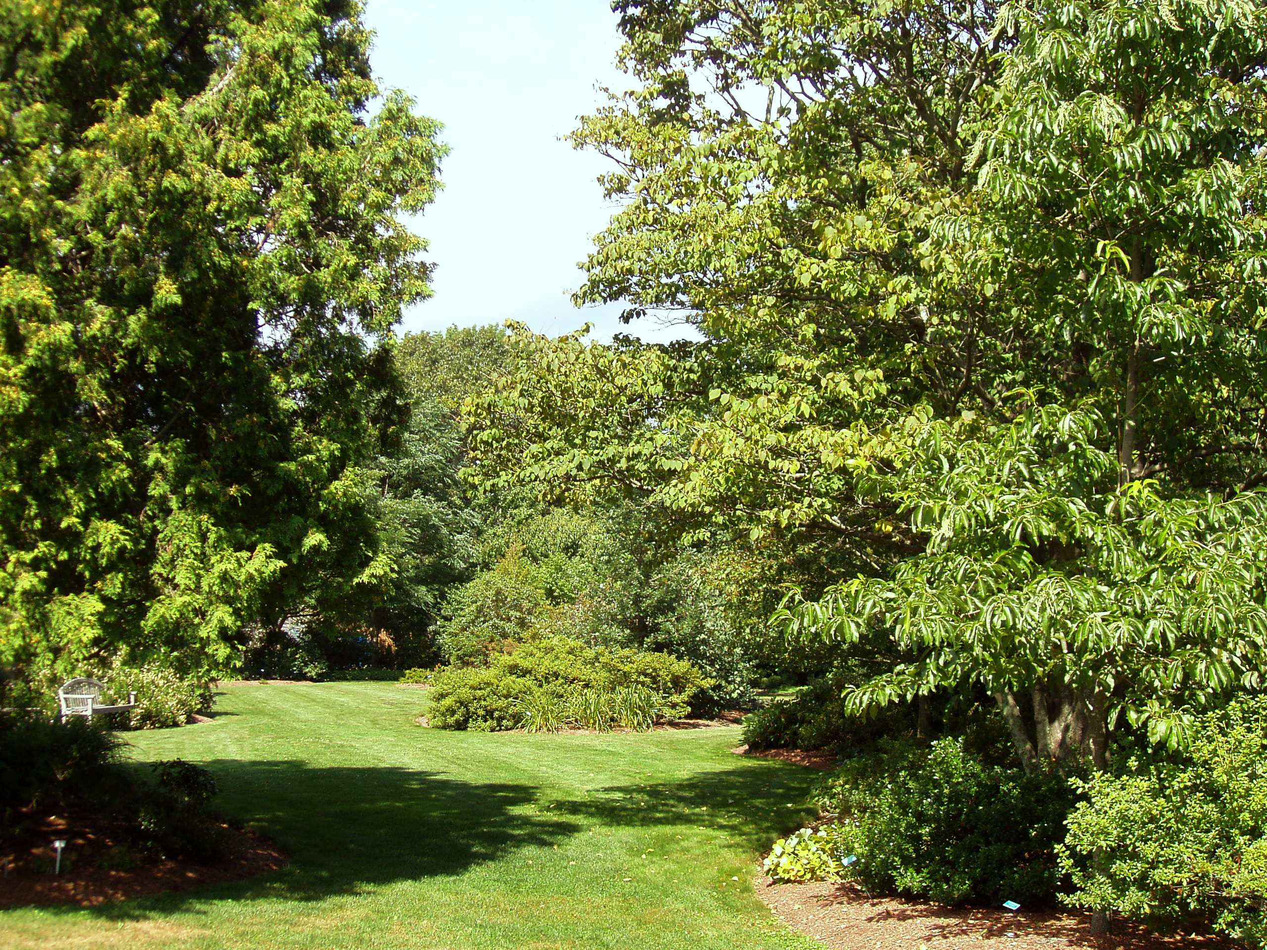 University of Rhode Island Botanical Gardens, University of Rhode Island, Kingston, Rhode Island, USA. General view.